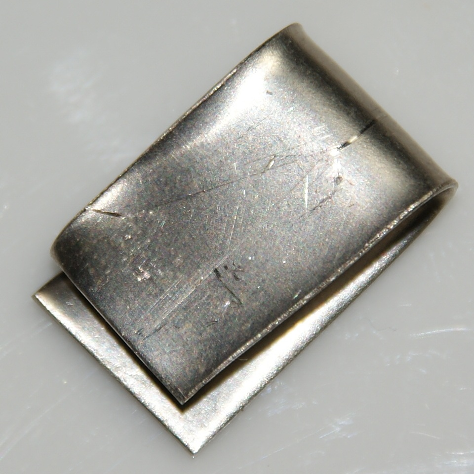 Nickel is a quite inert metal, which often is used for plating, but frequently causes allergic reactions on the skins of many people. Nickel is ferromagnetic and, together with iron, forms the inner core of the Earth, which is a big magnet. The rather rare nickel 62 is the most stable isotope, the one with the highest binding energy.